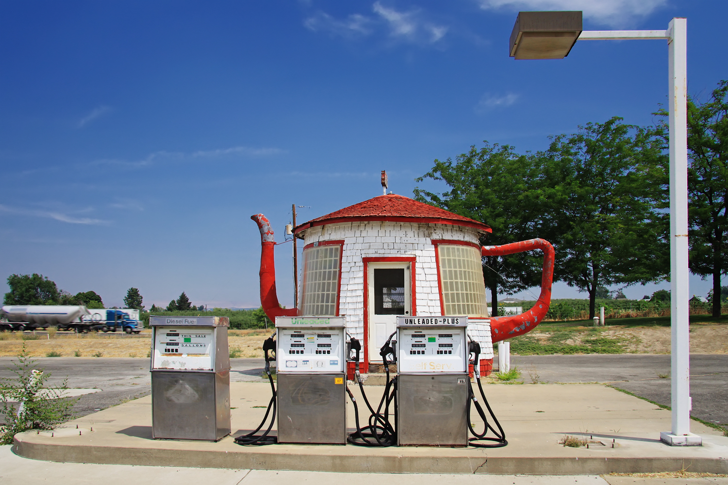 Teapot Dome Service Station in Zillah, Washington.